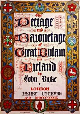 A photograph taken of the title page of the sixth edition (1839 edition) of "A Genealogical and Heraldic Dictionary of the Peerage and Baronetage of the British Empire" (renamed as "Burke's Peerage and Baronatage" in more recent editions) produced by John Burke.